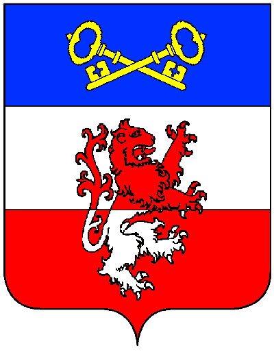 Coat of arms of the municipality of Auer, South Tyrol.